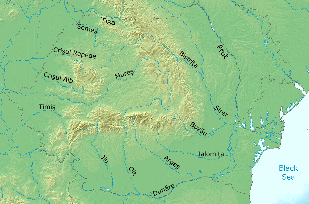 Based on Public Domain map by